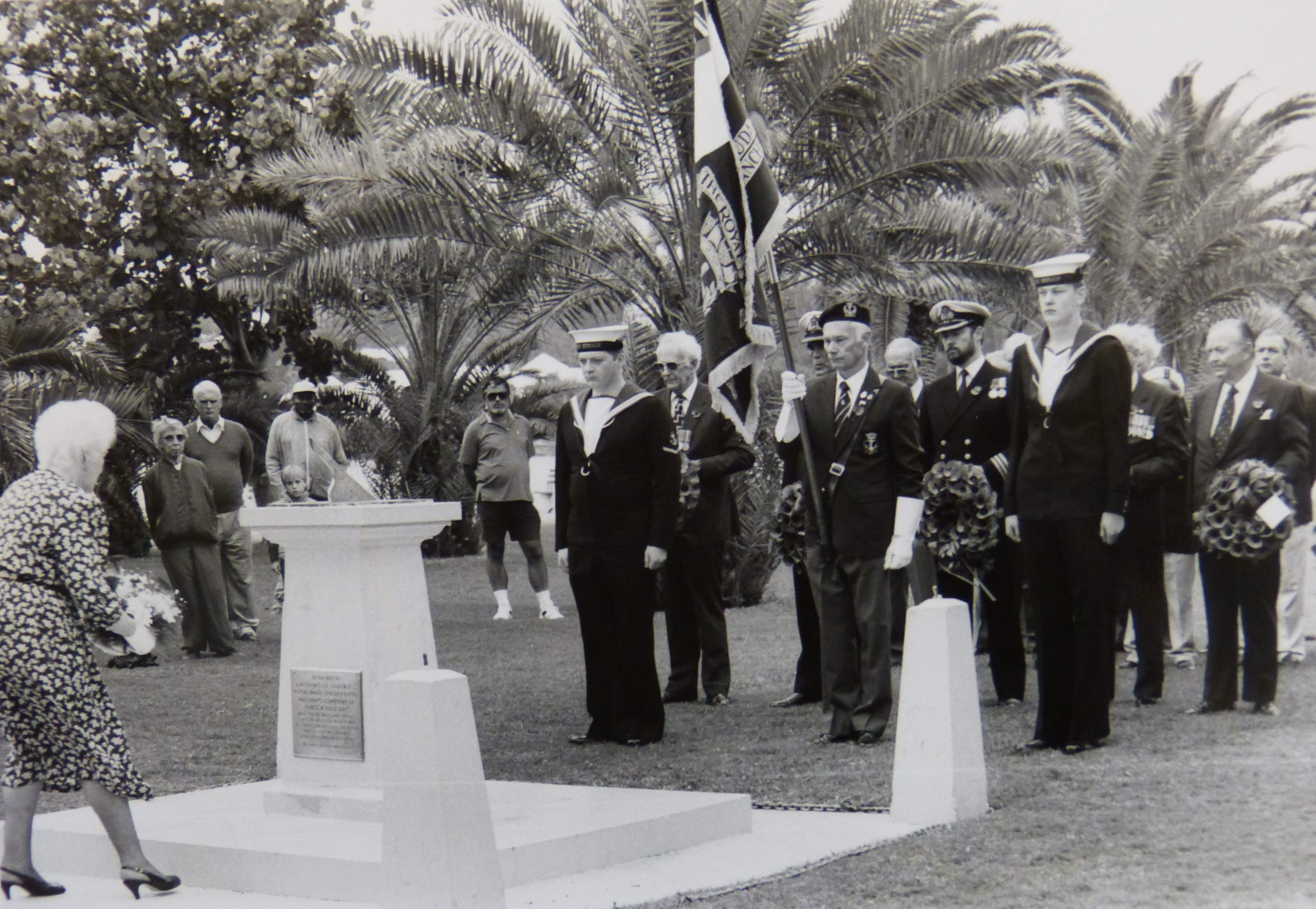 Remembrance Day ceremony at the HMS Jervis Bay memorial at Albouy's Point, in the City of Hamilton, Bermuda